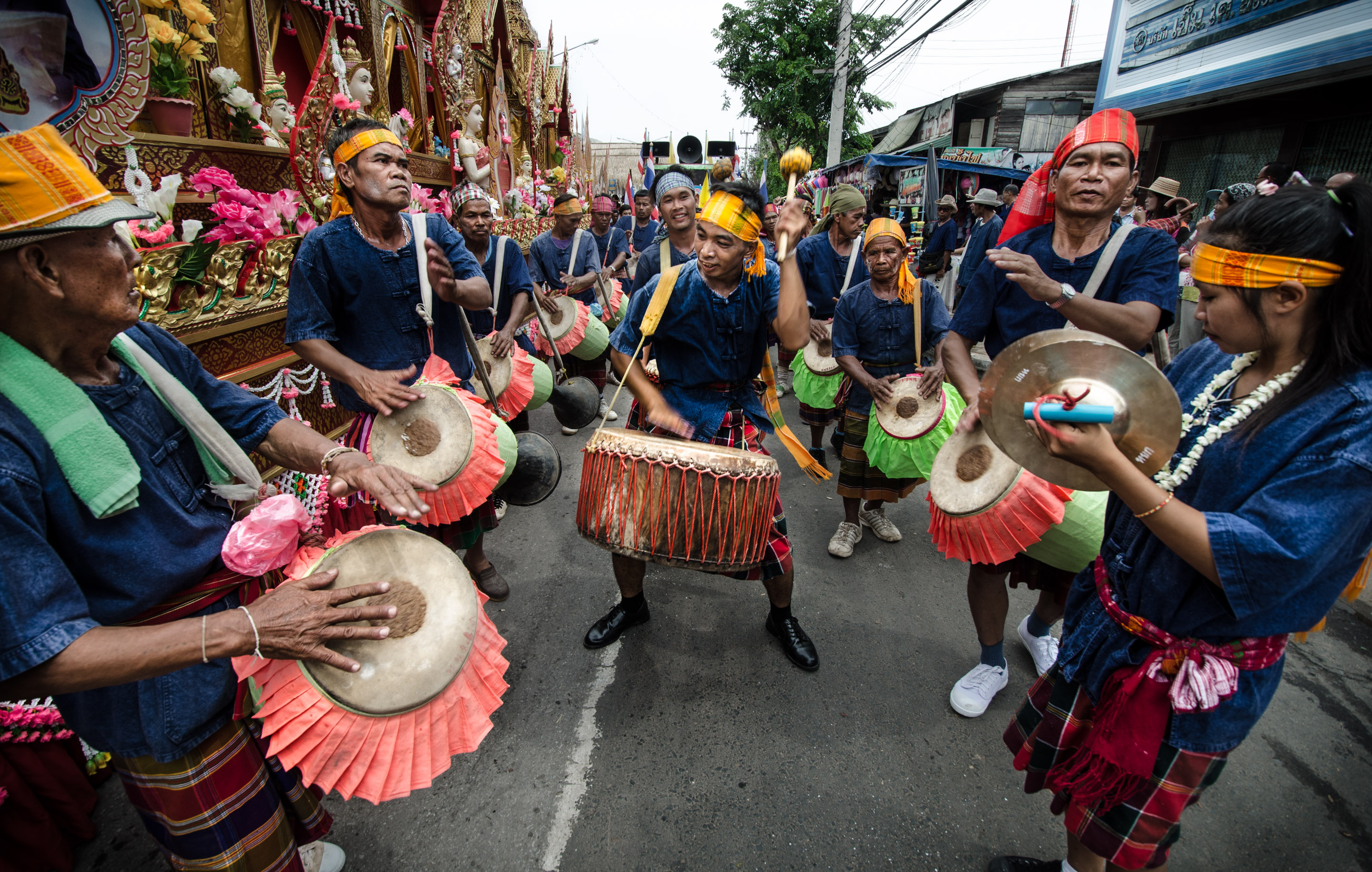 The parade was held on Saturday, 11 May, 2013; the second day of the festival.